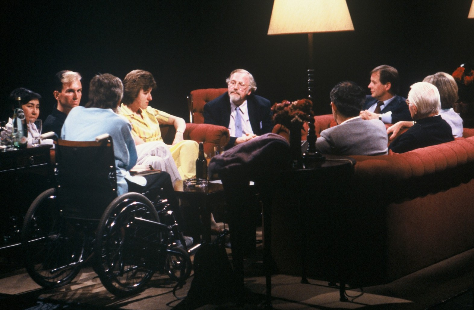 After Dark on 26 June 1987: "Killing With Care". With the host for that week Professor Ian Kennedy (right) were guests Charlotte Hough, Ilora Finlay, Pieter Admiraal, Lord Soper, George Cant, Maggie Davis, Vicky Clement-Jones and John Finnis. More here.